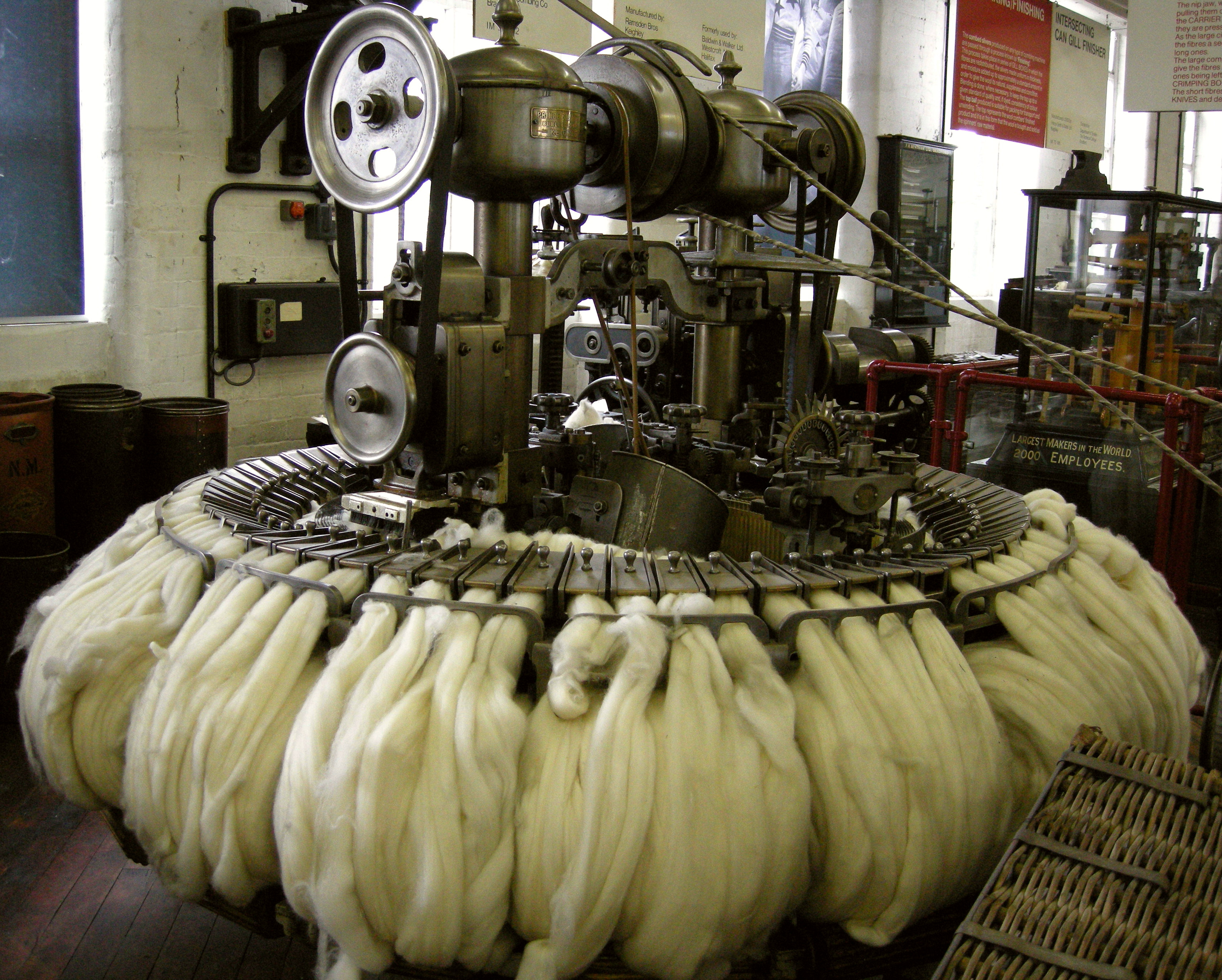 Spinning machine at Bradford Industrial Museum, Bradford, West Yorkshire, England. Understood to be a Noble comb. 53.48'.40".N; 1.43'.16".W.